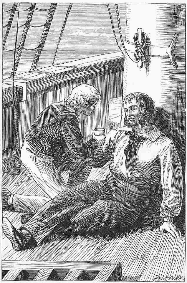 Illustrations from "The Coral Island" by R. M. Ballantyne (1825-1894), Nelson edition